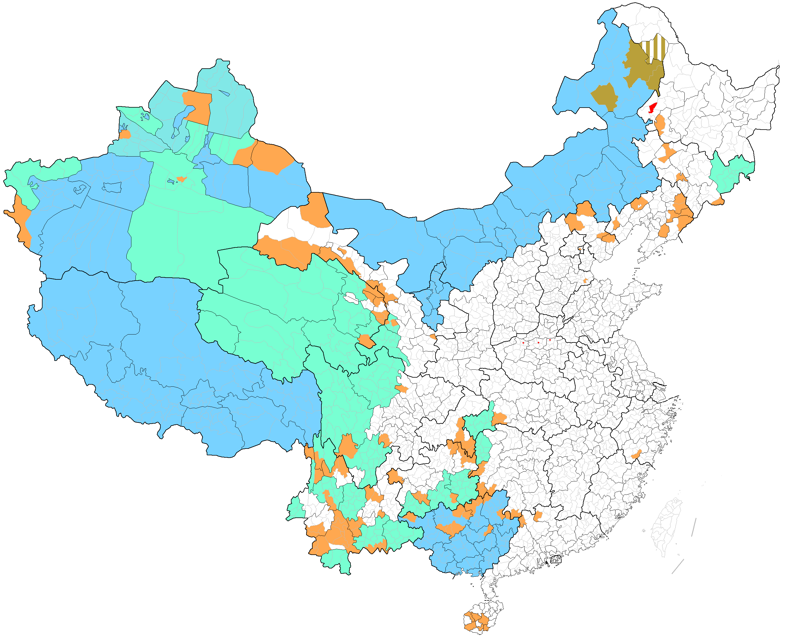 Map showing PRC and ROC (claimed but never controlled) showing the minority regions under autonomous rule designated by the Central Government of the People's Republic of China. Autonomous Region Autonomous Prefecture Autonomous County Autonomous Banner Ethnic district